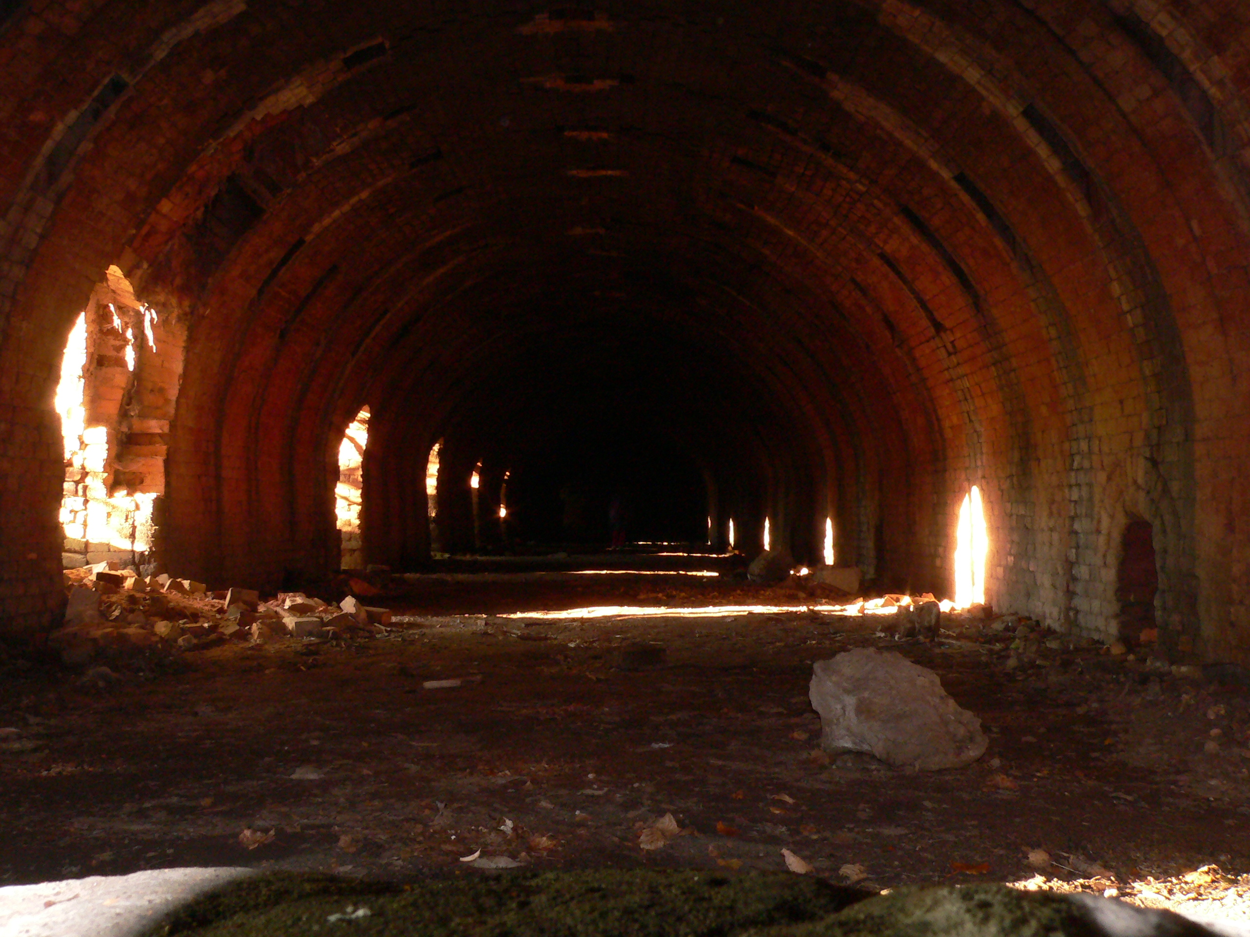 Zabytkowe ruiny Cegielni Chylickiej w Skolimowie, z dobrze zachowanym piecem Hoffmana, ul. Modrzewiowa, Konstancin-Jeziorna